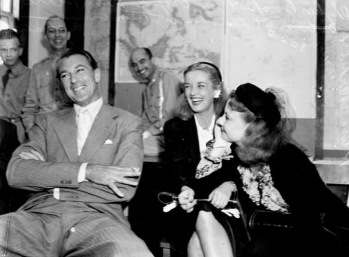 Film stars Gary Cooper, Phyllis Brooks and Una Merkel in Brisbane at a press conference, 8 November, 1943. The stars were on their way to a tour of battle zones and forward areas where they were to entertain the troops.